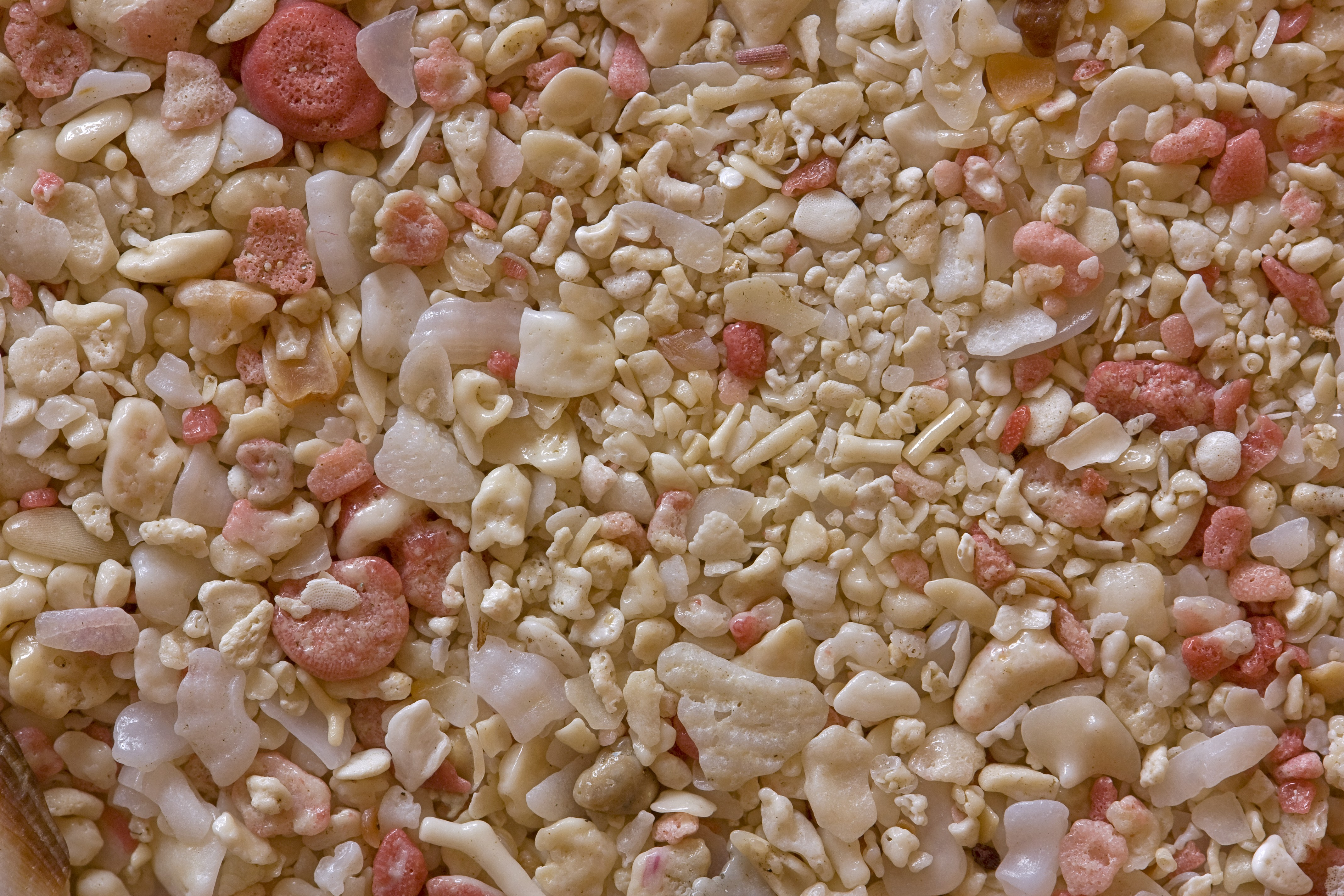 Coral sand sample from Bermuda. Pink foraminifera Homotrema rubrum gives pink color to the beaches of Bermuda. Corals are light-colored but not all of the pieces are fragments of coral reefs. Molluscs, other foram species, and even echinoids (sea urchin spine in the lower left) are also present. Width of view 32 mm. Additional information from the source: [2]